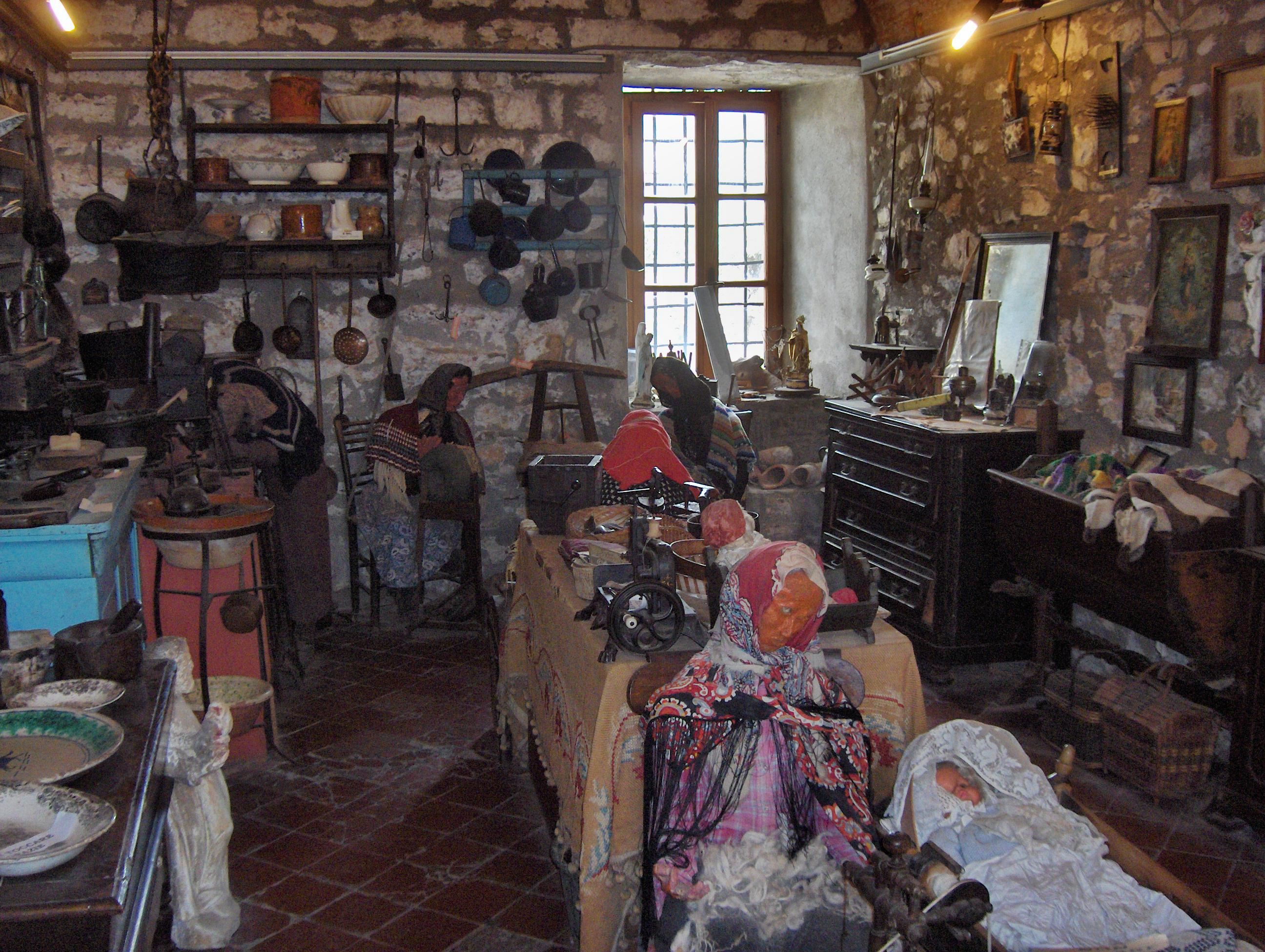 Ethnographic Museum of Western Liguria, Cervo, Flower Riviera, Italy